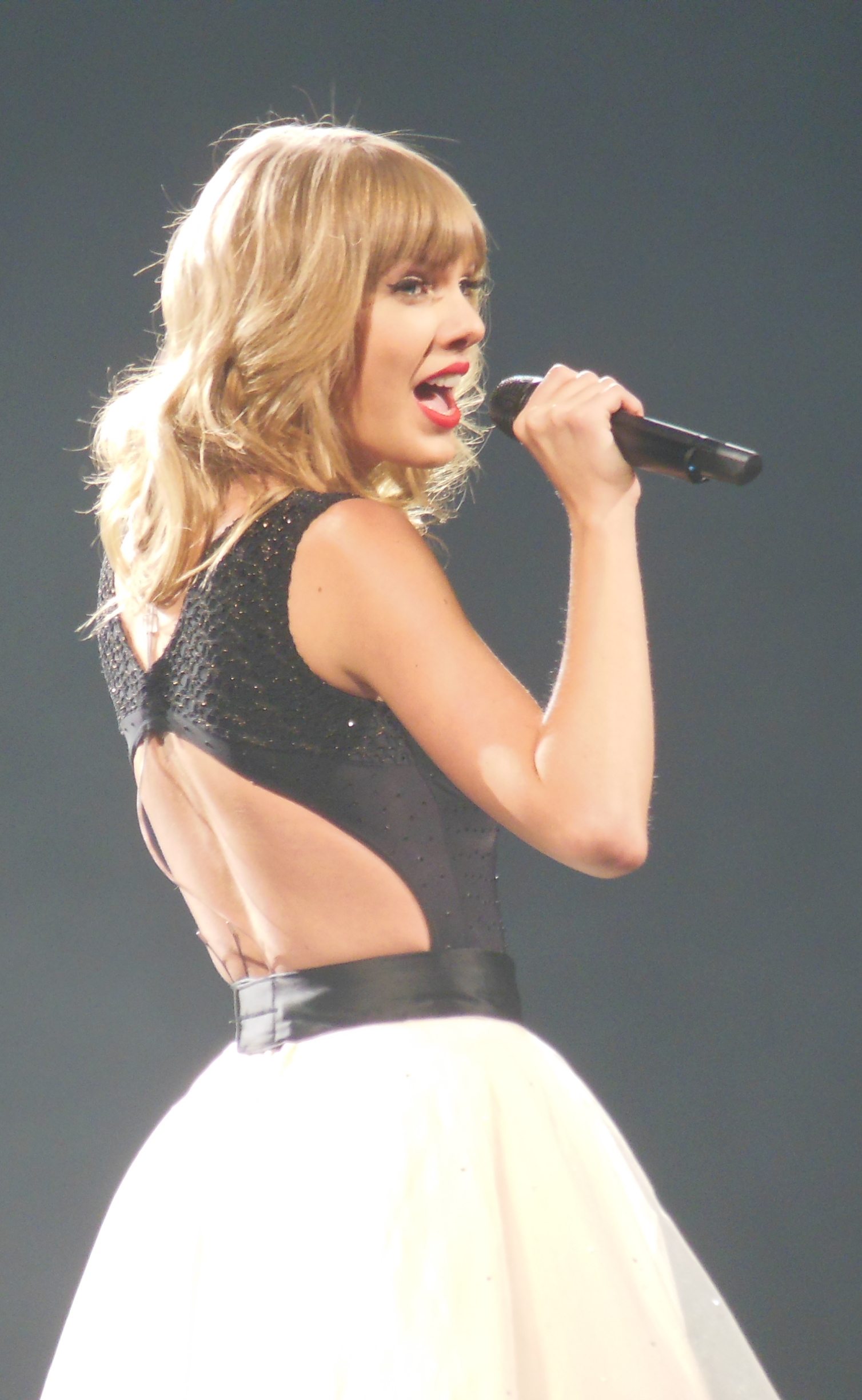 Taylor Swift performing in St Louis during the Red Tour